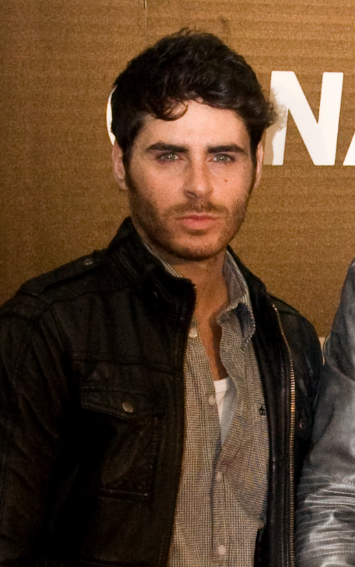 Jesús Olmedo and José María Galeano Spanish actors at the photocall of Alice in Wonderland in 2010.